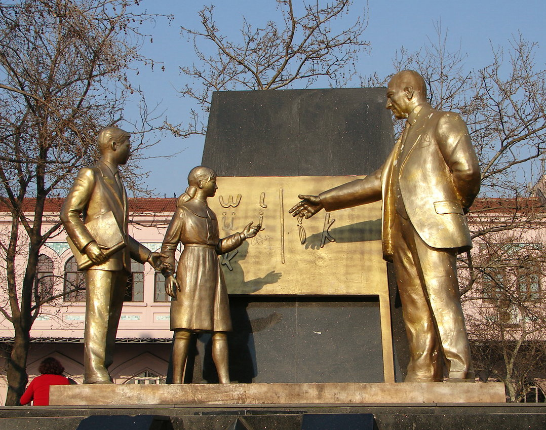 Ataturk teaching the children of Turkey the Turkish alphabet, a statue in Istanbul (Asian side). Based on this historic photo.